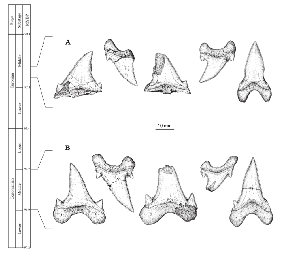 Fig.4.Comparison of Cardabiodon venator from the Fairport Member, Carlile Shale, Mosby, Montana, USA (A) and Cardabiodon ricki (Siverson, 1999) from the uppermost Gearle Siltstone, Giralia Anticline, Western Australia (B)